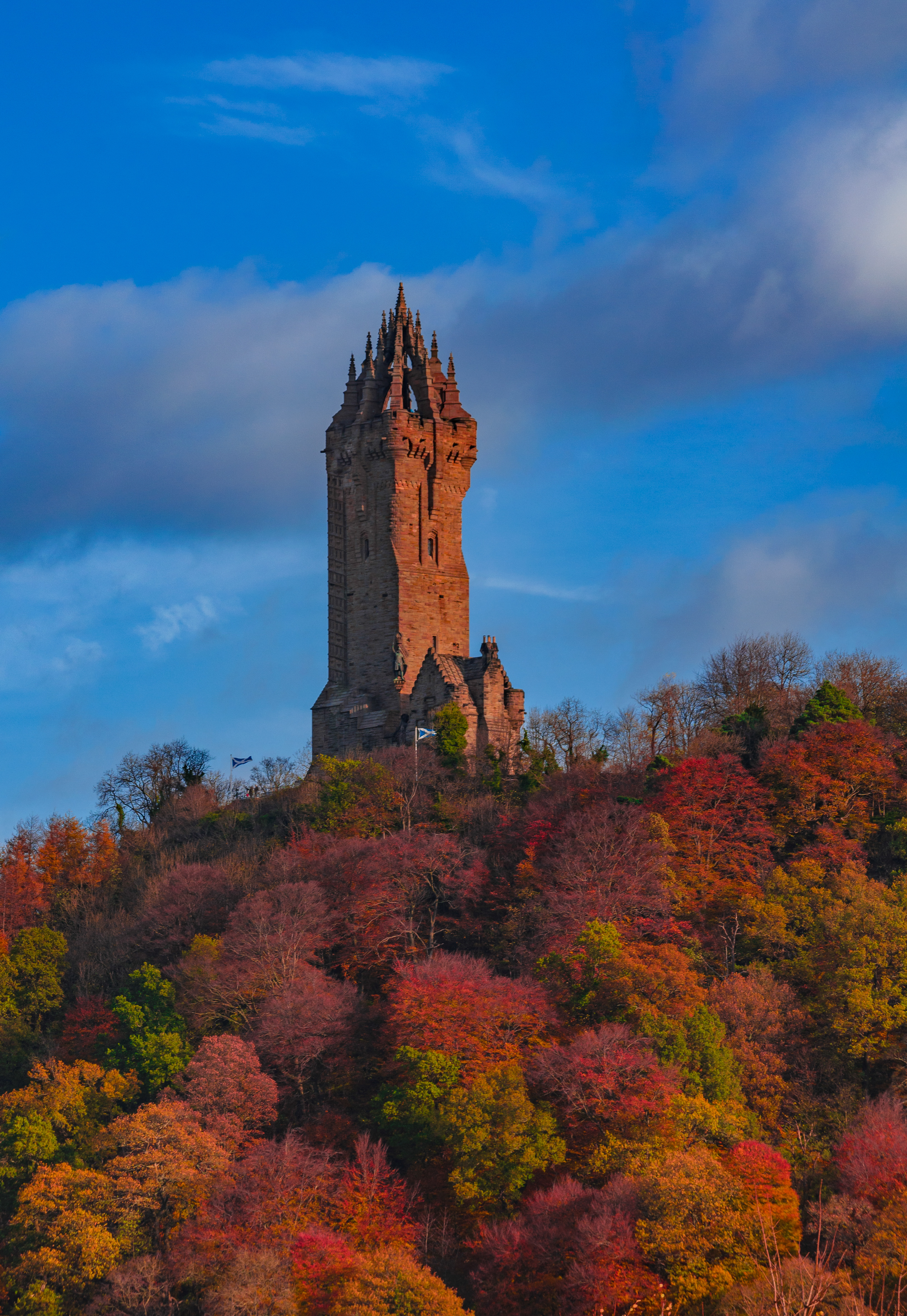 Wallace monument standing tall and glorious.